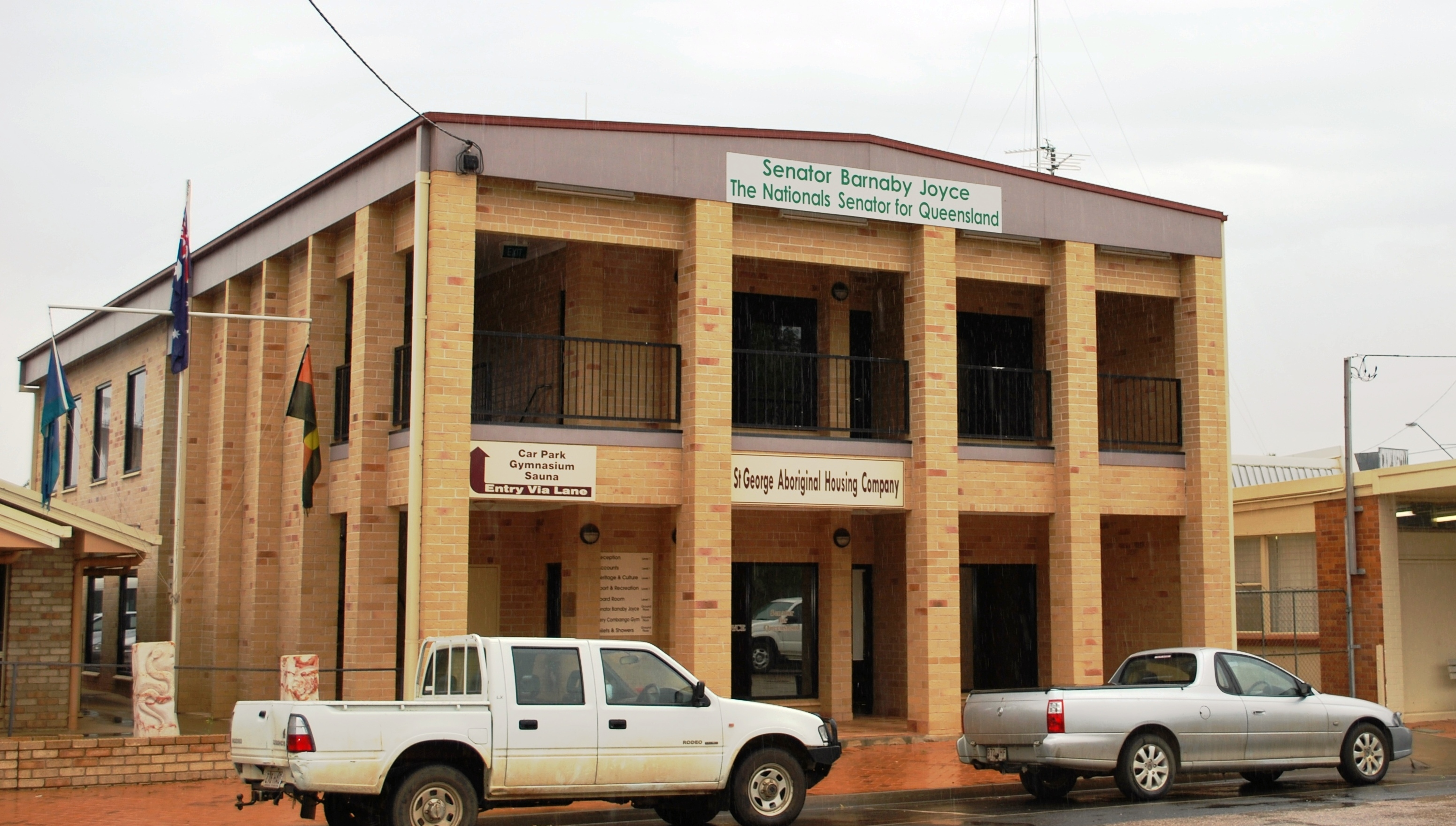 Offices at St George, Queensland